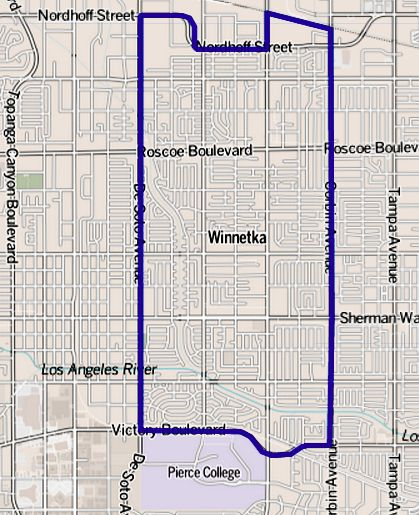 Map of Winnetka, as delineated by the Los Angeles Times Other information Boundary map as drawn by the Los Angeles Times on a CC-by-SA background. Note at bottom right of map on the L.A. Times website noted above says "CC-by-SA" (which gives permission to use the map). There is a link there to which explains the meaning thereof. The base map is credited to The Times spells all this out at